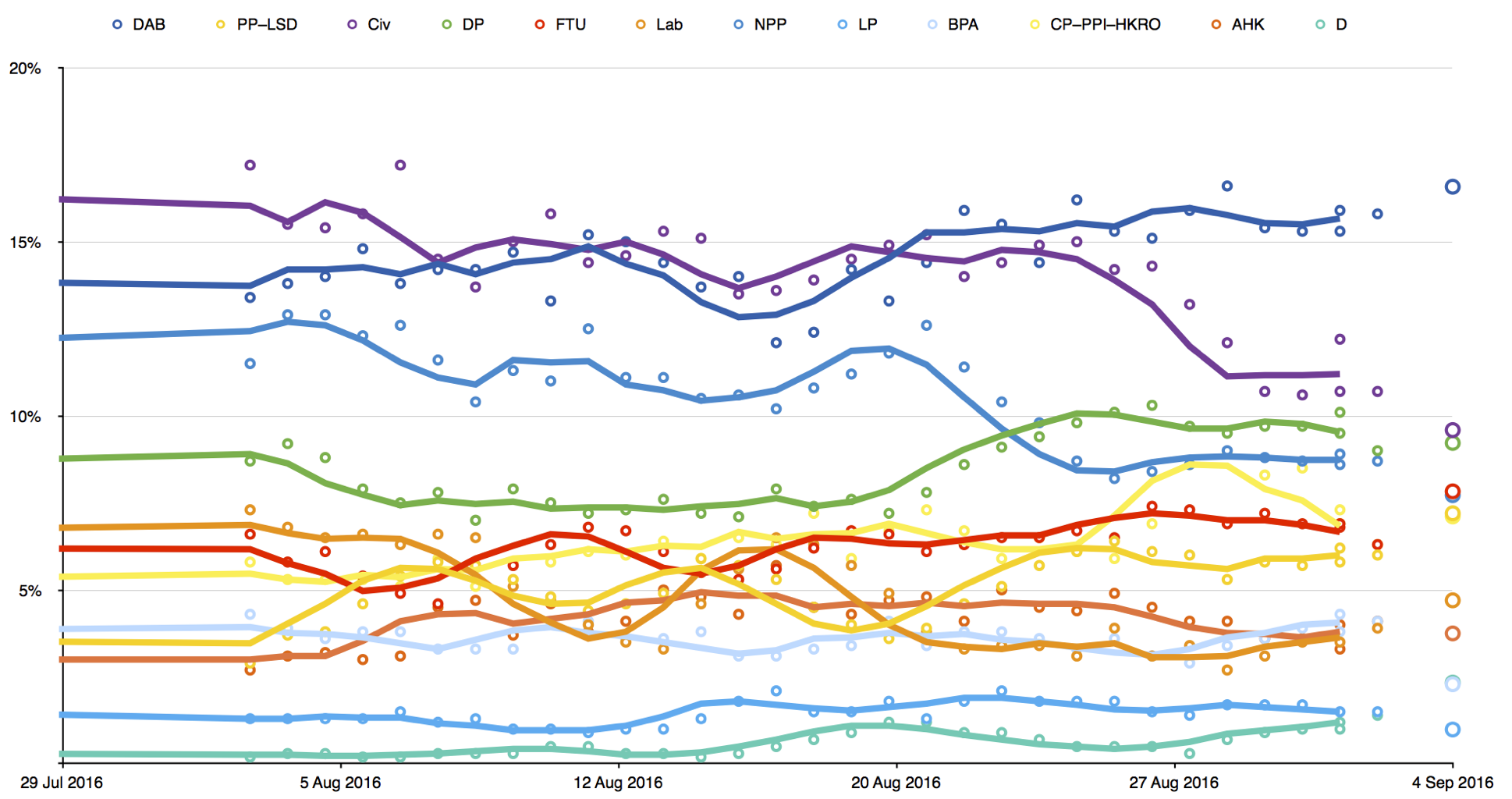 Opinion polling for the 2016 Legislative Council election Democratic Alliance for the Betterment and Progress of Hong Kong People Power–League of Social Democrats Civic Party Democratic Party Hong Kong Federation of Trade Unions Labour Party New People's Party Liberal Party Business and Professionals Alliance for Hong Kong Civic Passion–Proletariat Political Institute–Hong Kong Resurgence Order ALLinHK Demosisto